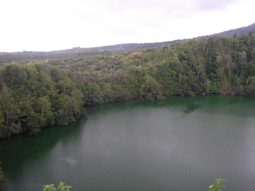 Tolire Lake, Ternate Island North Maluku